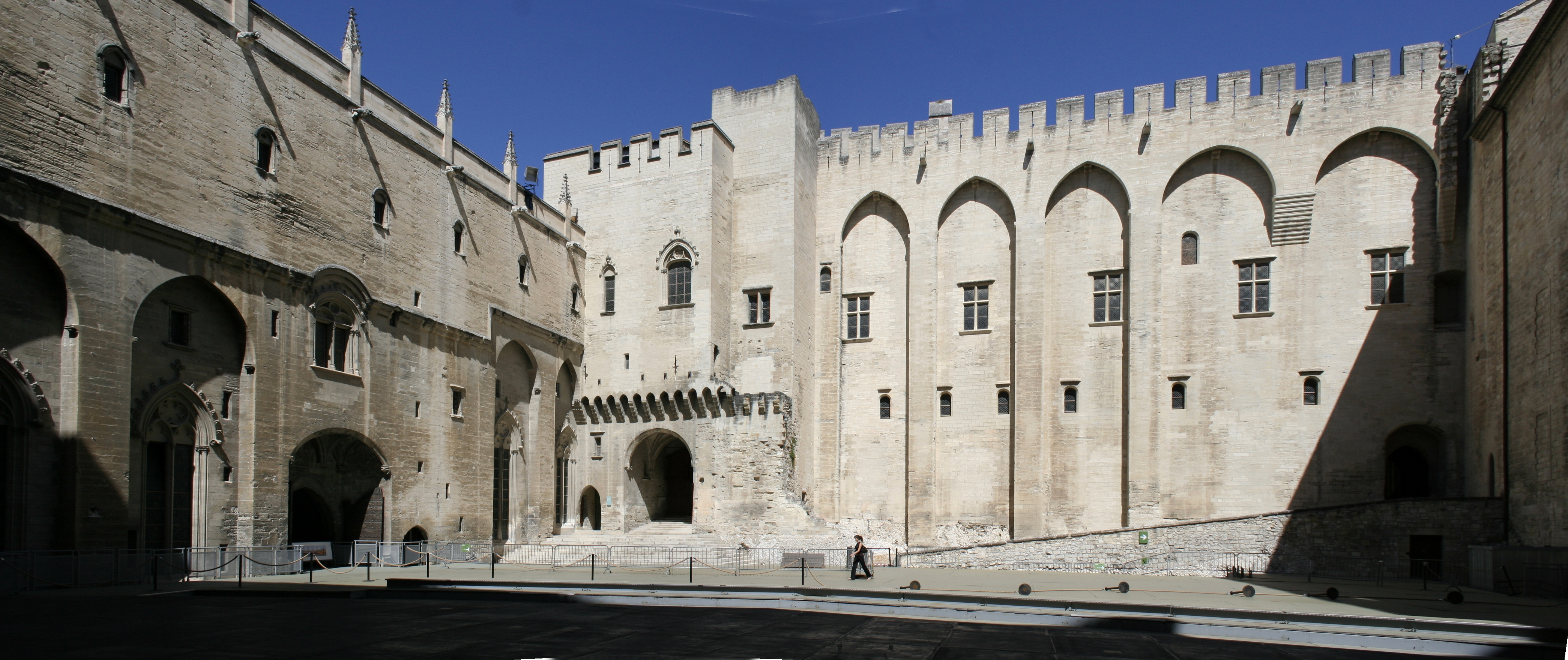 Avignon Papal Palace - Cour d'honneur